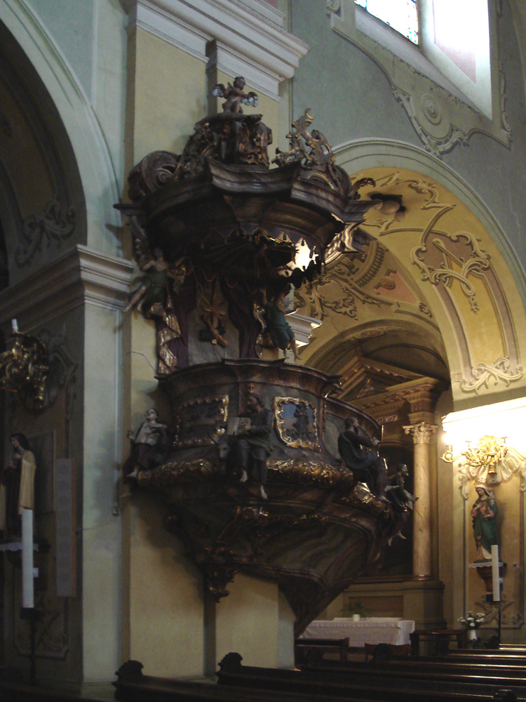 Pulpit in the Minorite Church, Miskolc, Hungary